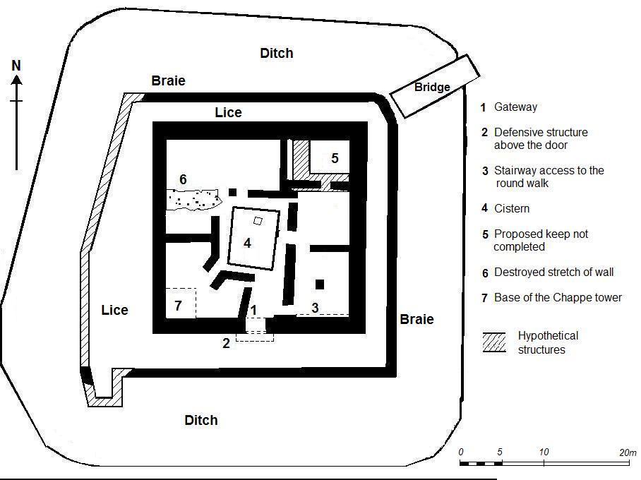 Plan view of Fort de Valros